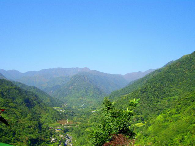 The image shows the views in and around sahastradhara, dehradun.